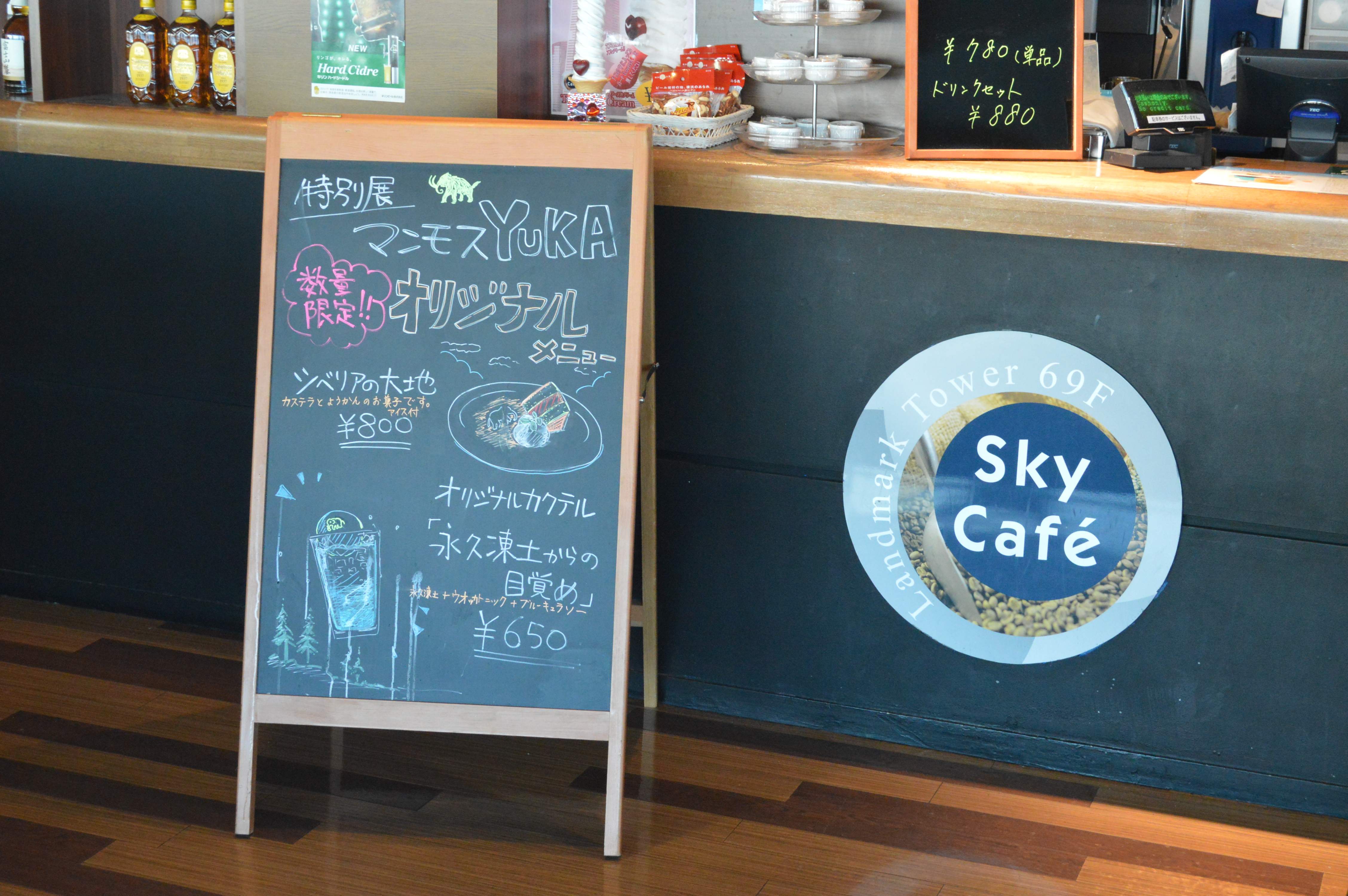 Sky Café's special "Yuka" menu items (with limited quantities) at the 69th Sky Garden (the observation deck) of the Yokohama Landmark Tower